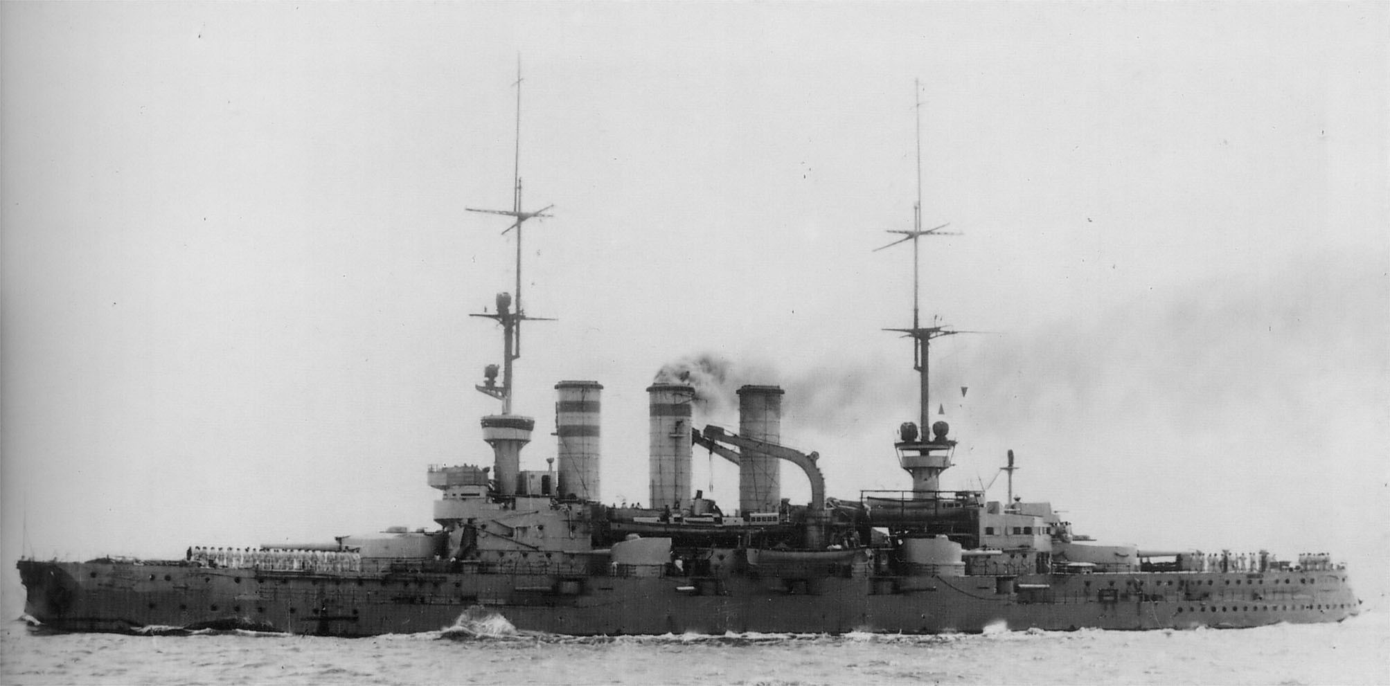 SMS Hessen.